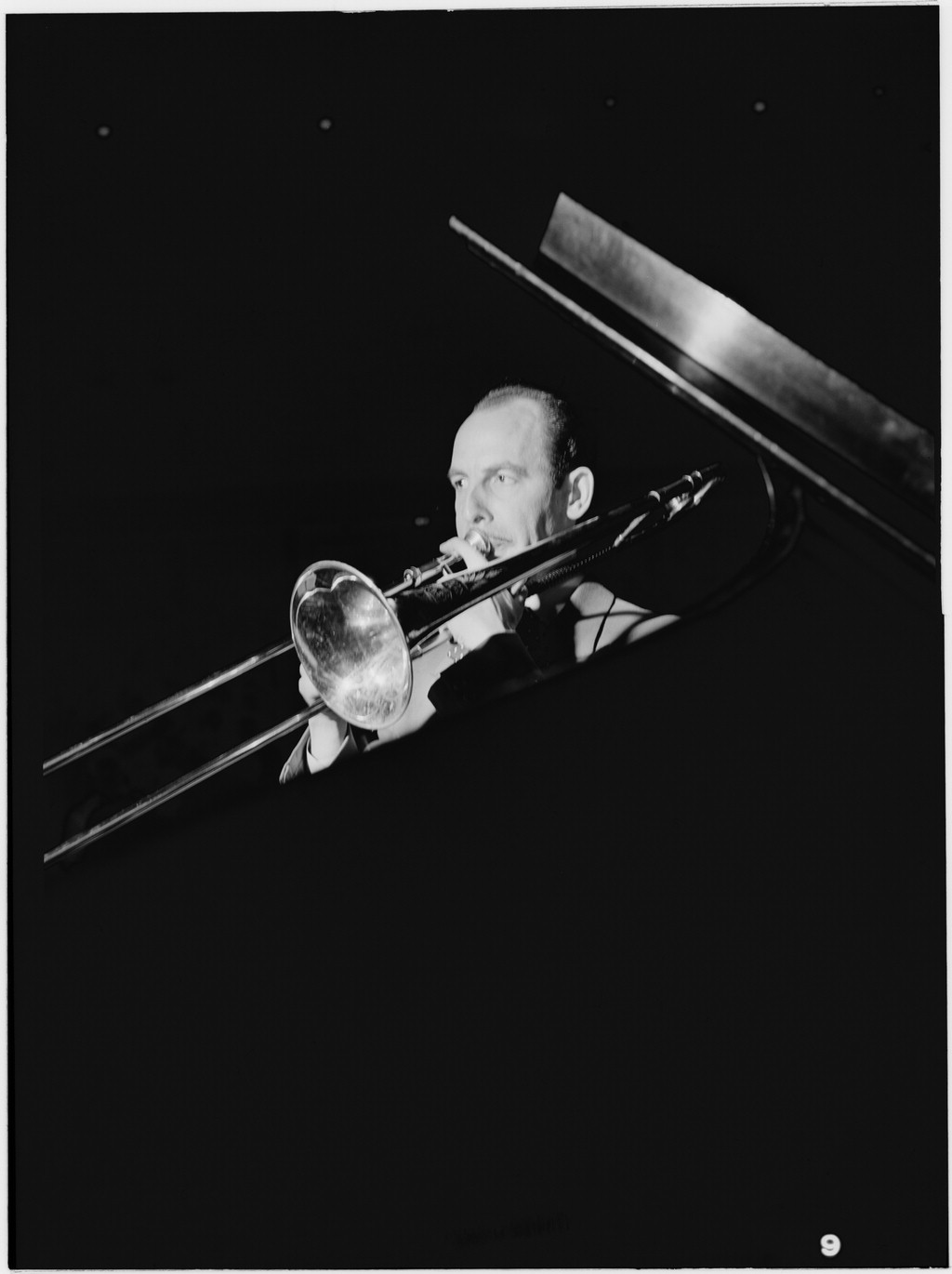 Gottlieb, William P., 1917-, photographer. [Portrait of Harry DeVito, 1947 or 1948] 1 negative : b&w ; 3 1/4 x 4 1/4 in. Notes: Gottlieb Collection Assignment No. 176 Purchase William P. Gottlieb Forms part of: William P. Gottlieb Collection (Library of Congress). Subjects: DeVito, Harry Stan Kenton Orchestra Jazz musicians--1940-1950. Trombonists--1940-1950. Format: Portrait photographs--1940-1950. Film negatives--1940-1950. Rights Info: Mr. Gottlieb has dedicated these works to the public domain, but rights of privacy and publicity may apply. Repository: (negative) Library of Congress, Prints & Photographs Division, Washington D.C. 20540 USA, Part Of: William P. Gottlieb Collection (DLC) 99-401005 General information about the Gottlieb Collection is available at Persistent URL: Call Number: LC-GLB23- 1320 This work is from the William P. Gottlieb collection at the Library of Congress. Rights and restrictions.In accordance with the wishes of William Gottlieb, the photographs in this collection entered into the public domain on February 16, 2010.